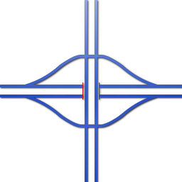 Diamond Road Interchange